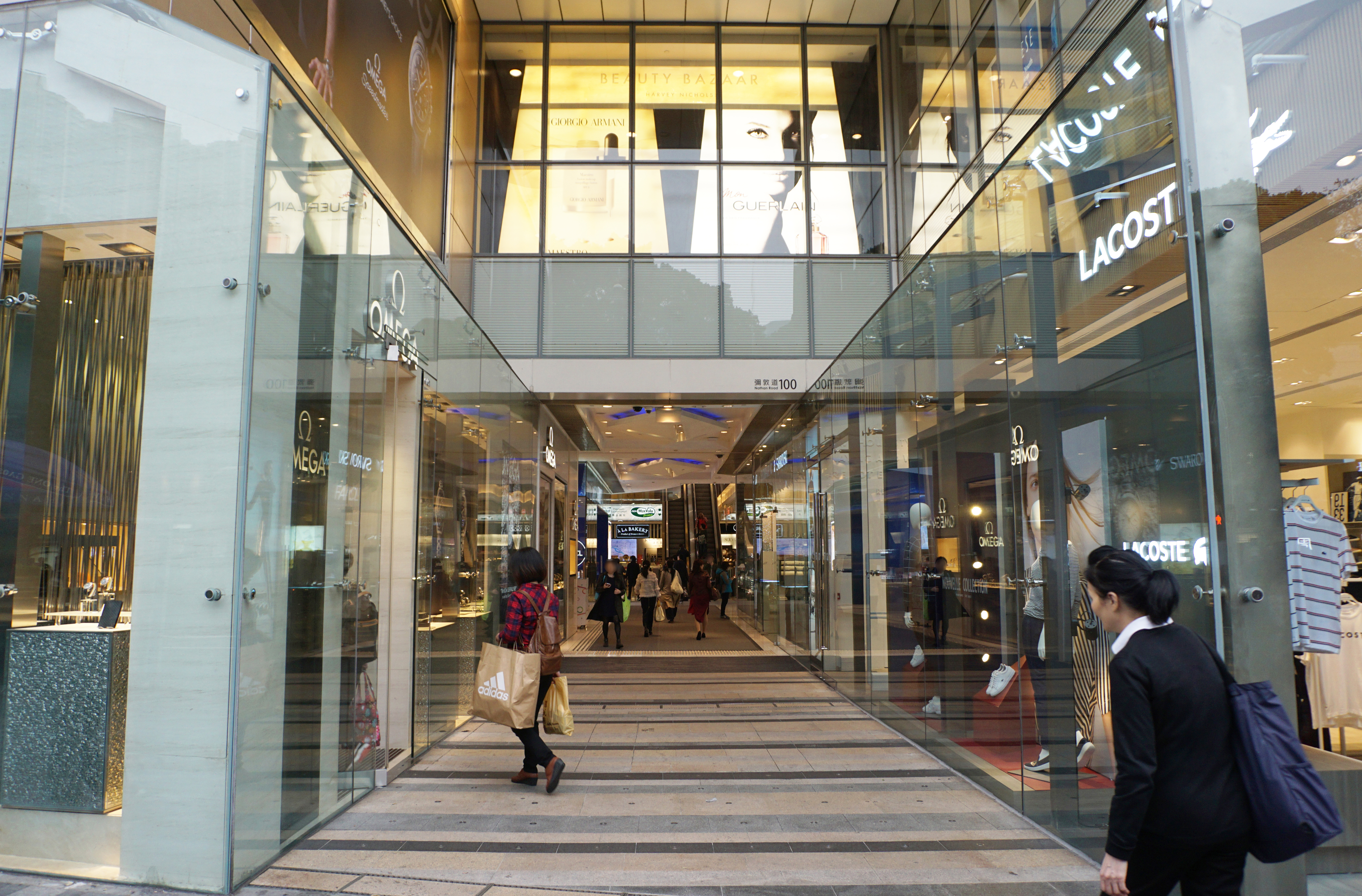 The ONE in Tsim Sha Tsui, Hong Kong.